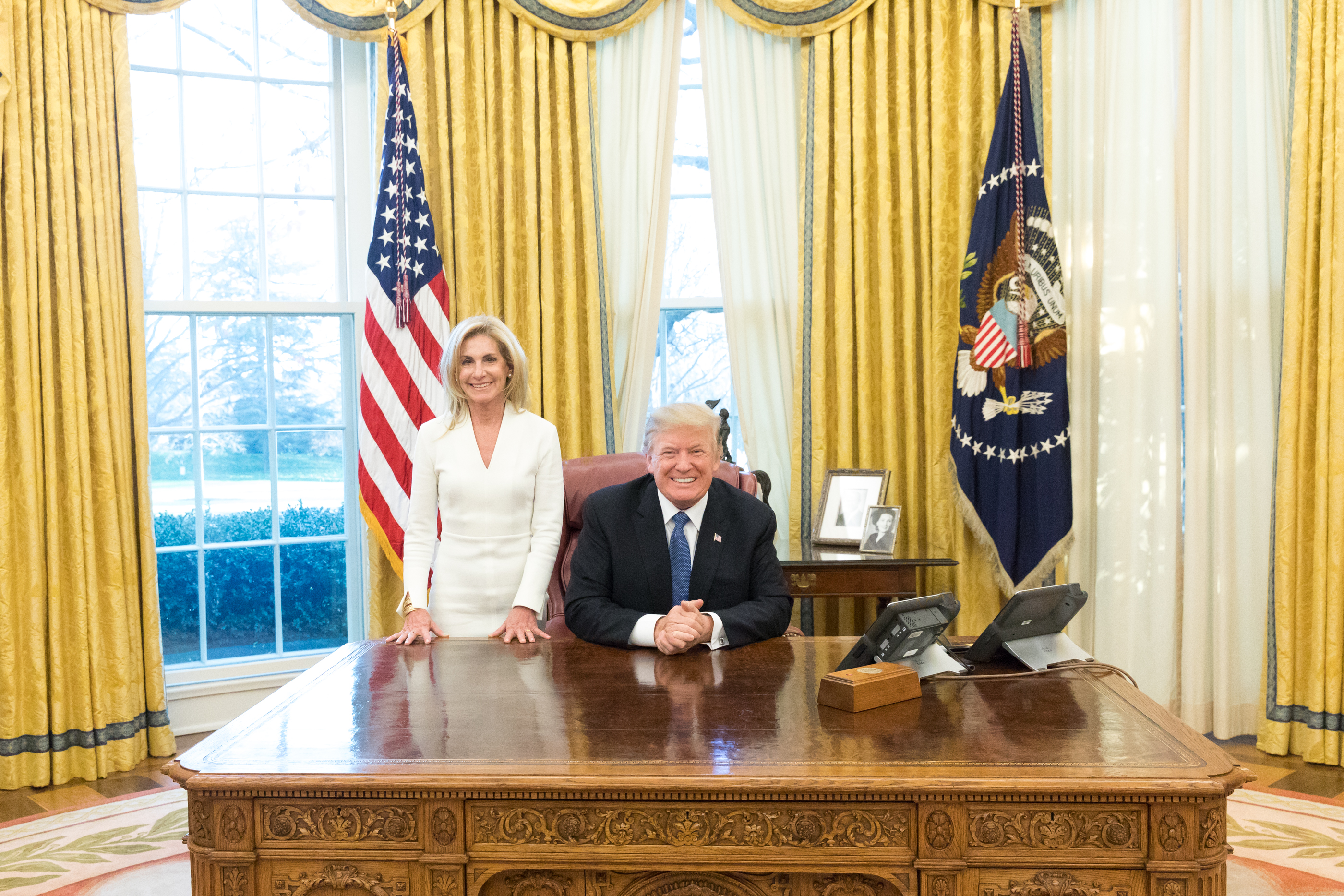 Swearing-In Ceremony - White House - December 11, 2017